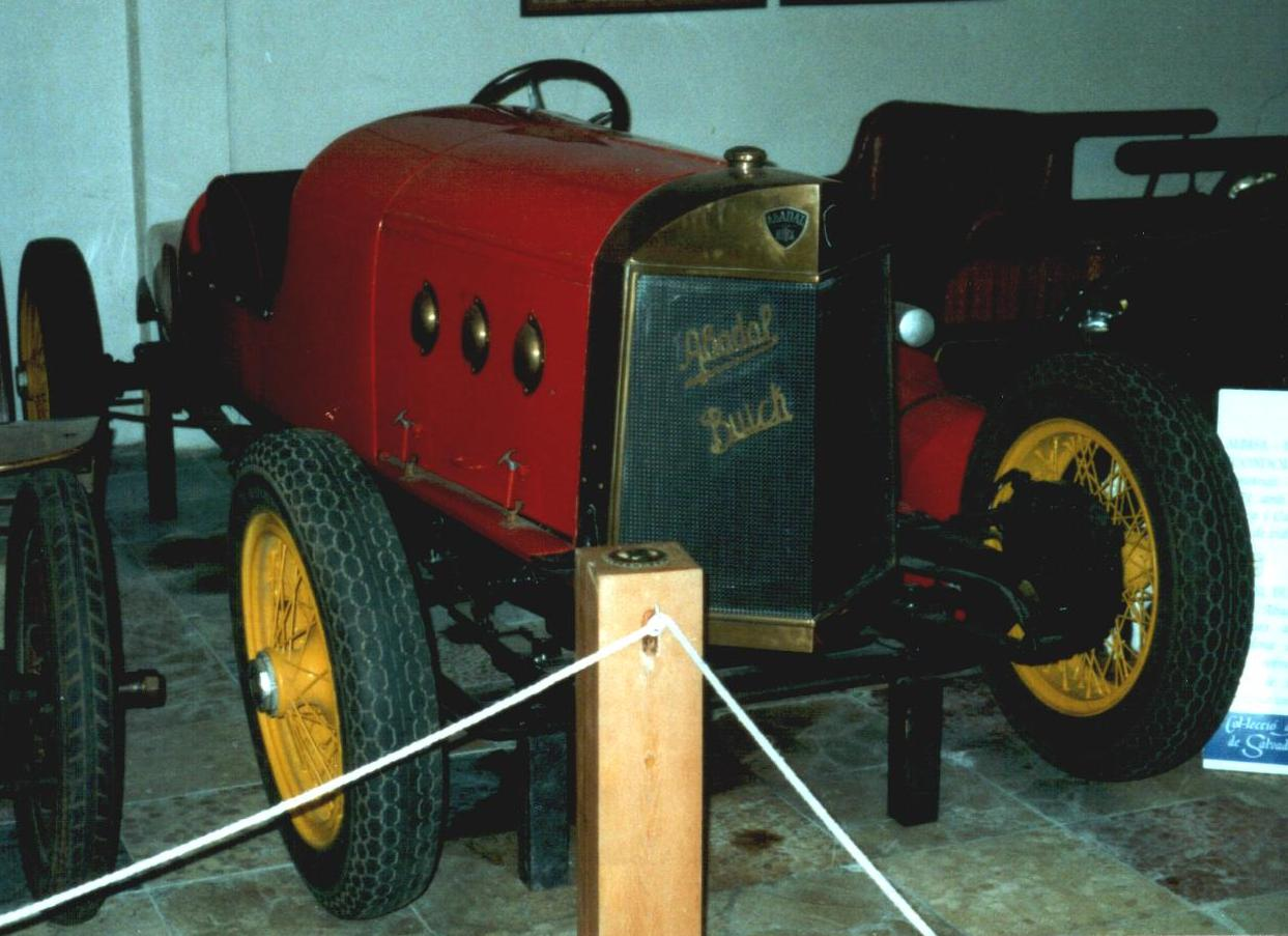 Abadal-Buick 1923 (Country of origin: Spain)